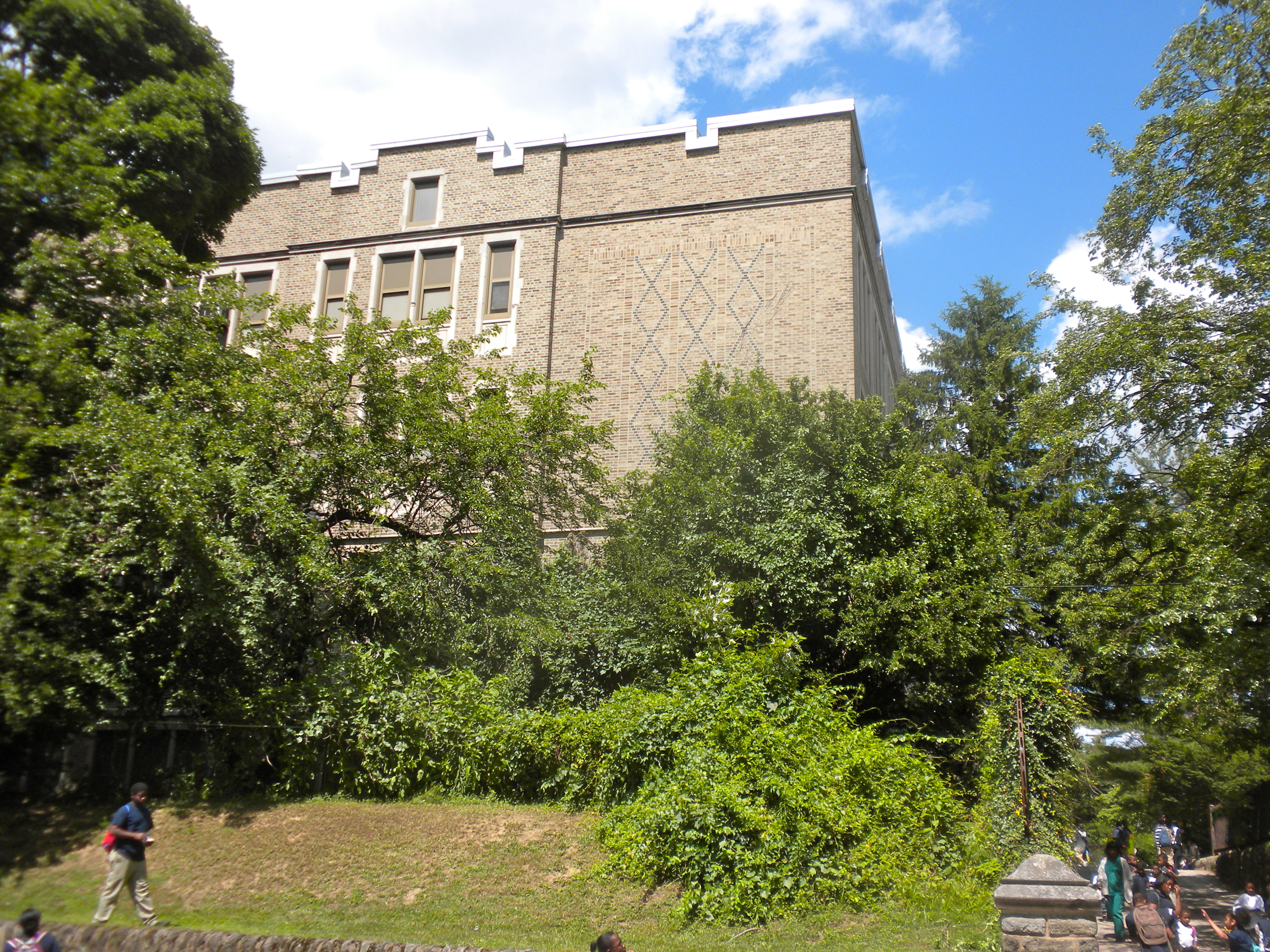 Henry H. Houston School on NRHP since April 10, 1989. At 7300 Rural Lane (near SEPTA's Allen Lane Station) in the West Mount Airy neighborhood of NW Philadelphia